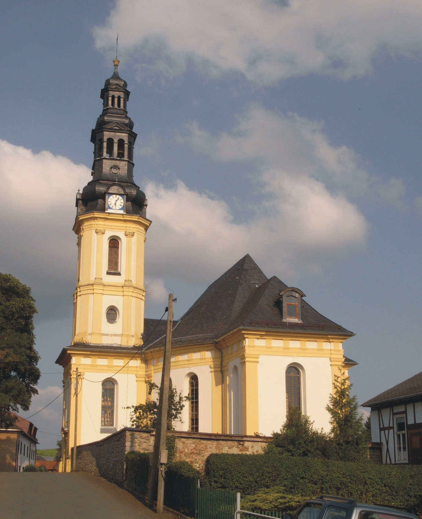 Church in Kirschkau (Thuringia, Germany)